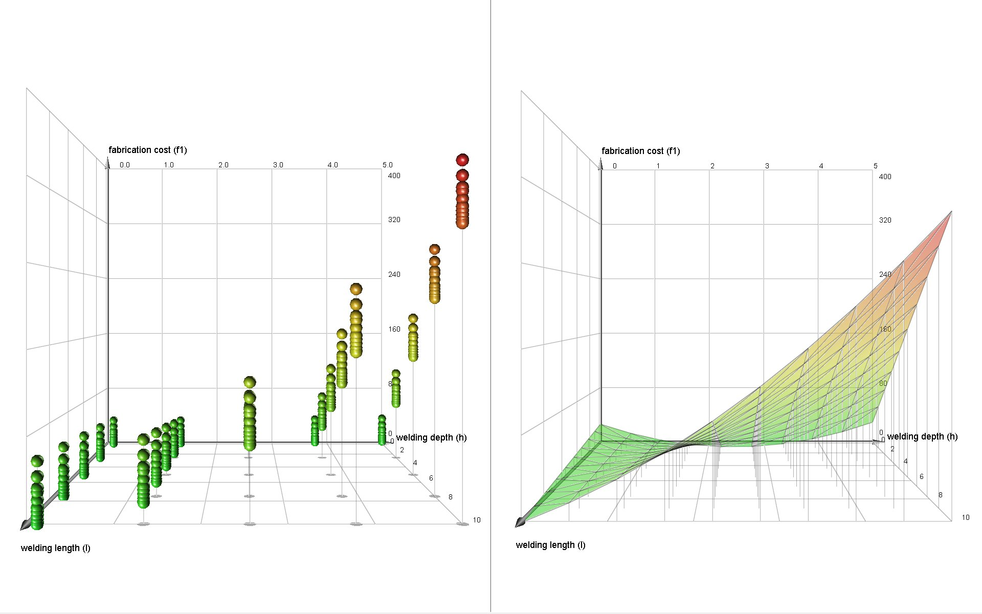 Designed experiments with augmented full factorial design (left)(a non-augmented full factorial design would only contain the 2 extreme levels per variable, i.e. only the corners of the square would be populated with experiments), response surface with second-degree polynomial (right), obtained with